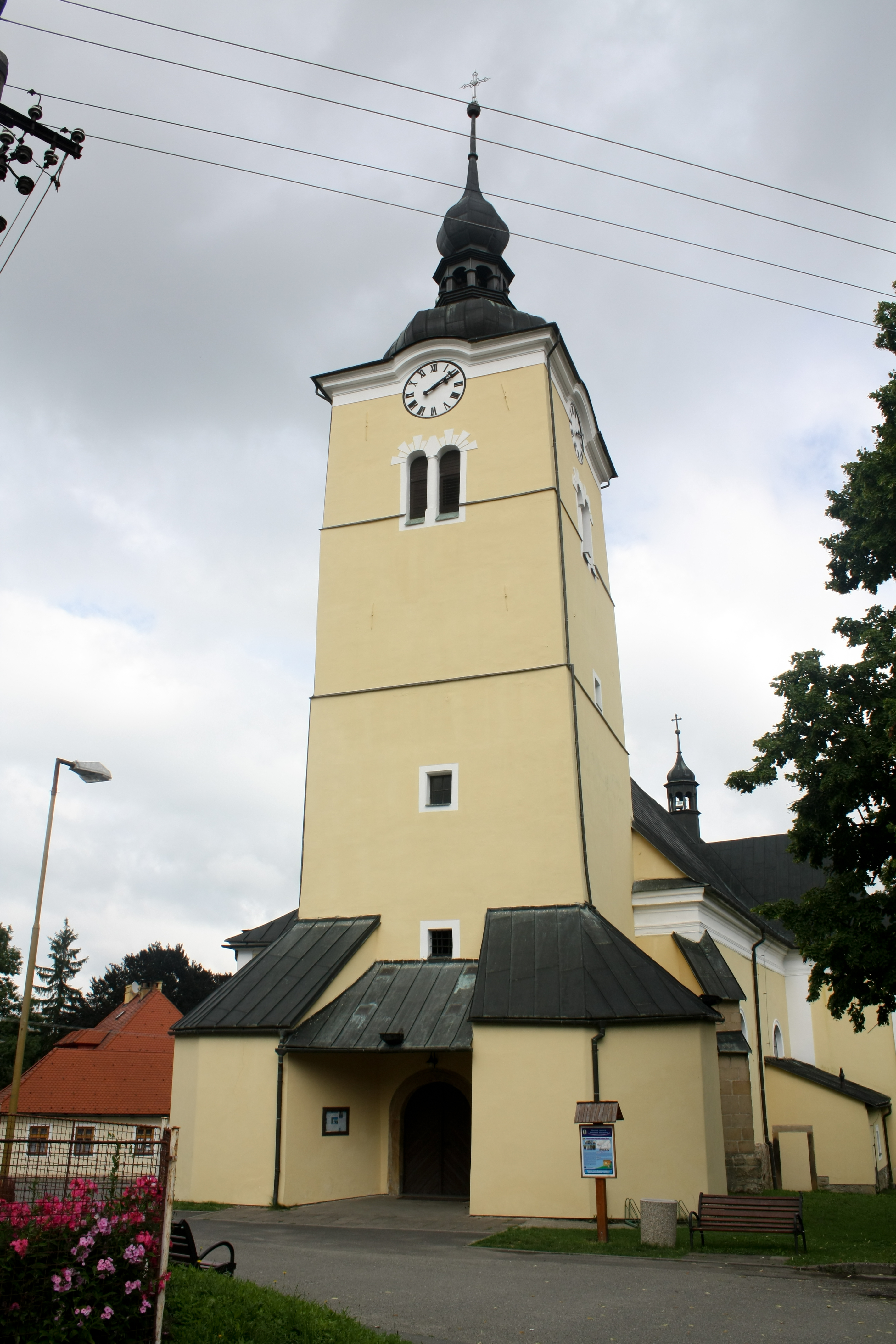 Valašské Klobouky, Zlín District, Czech Republic - parish church Object location49° 08′ 25.82″ N, 18° 00′ 27.59″ E